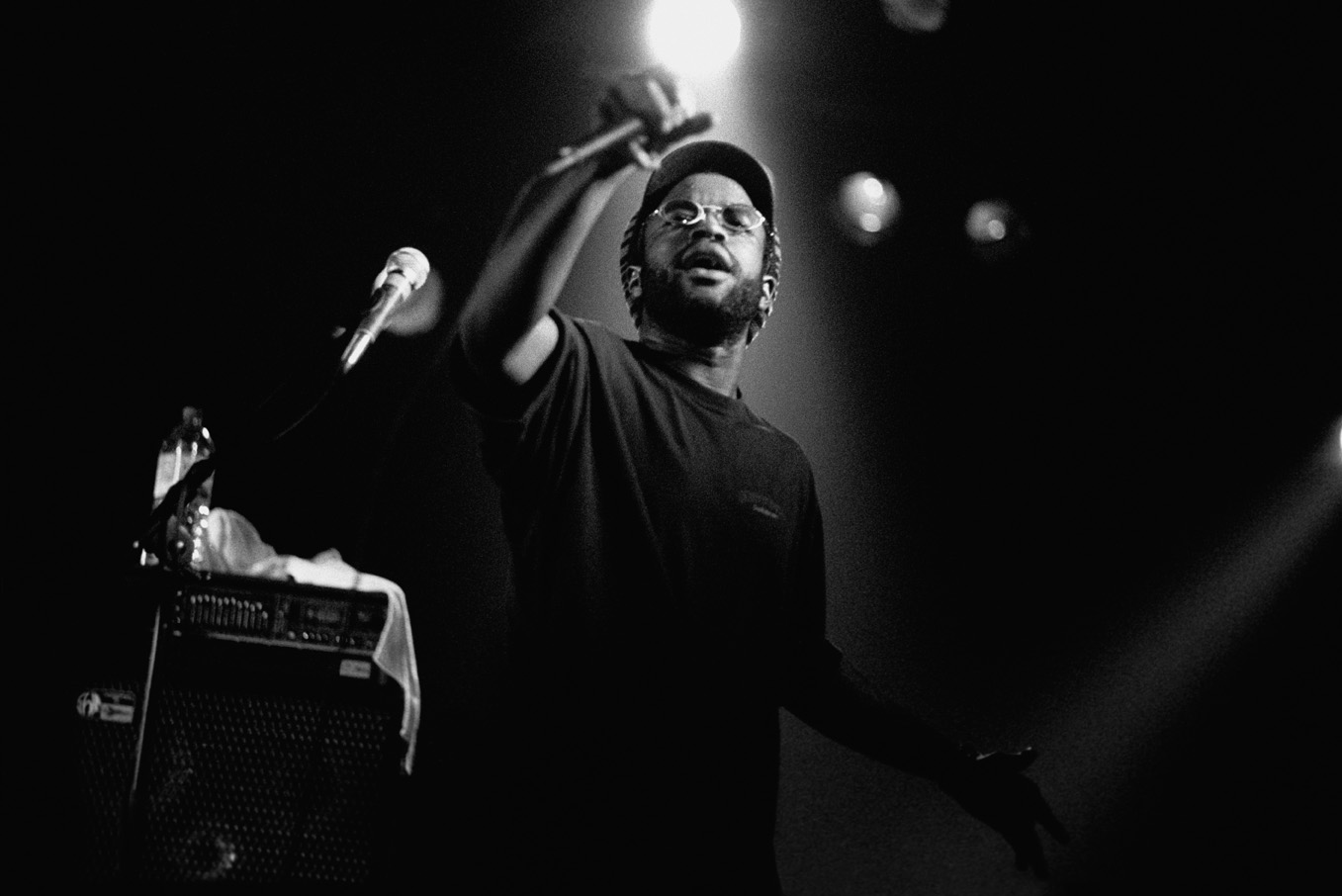 rapper black thought